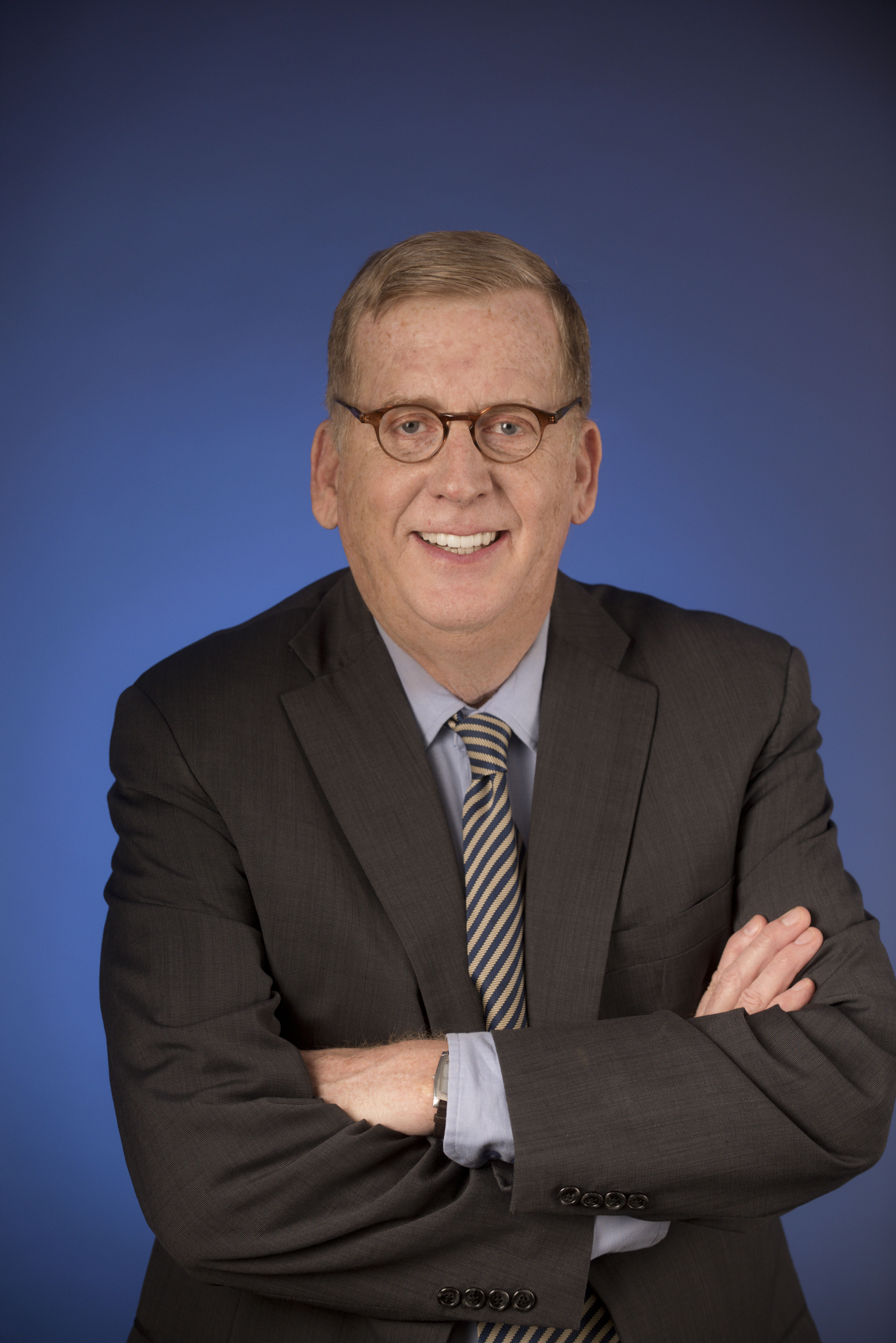 Official professional headshot